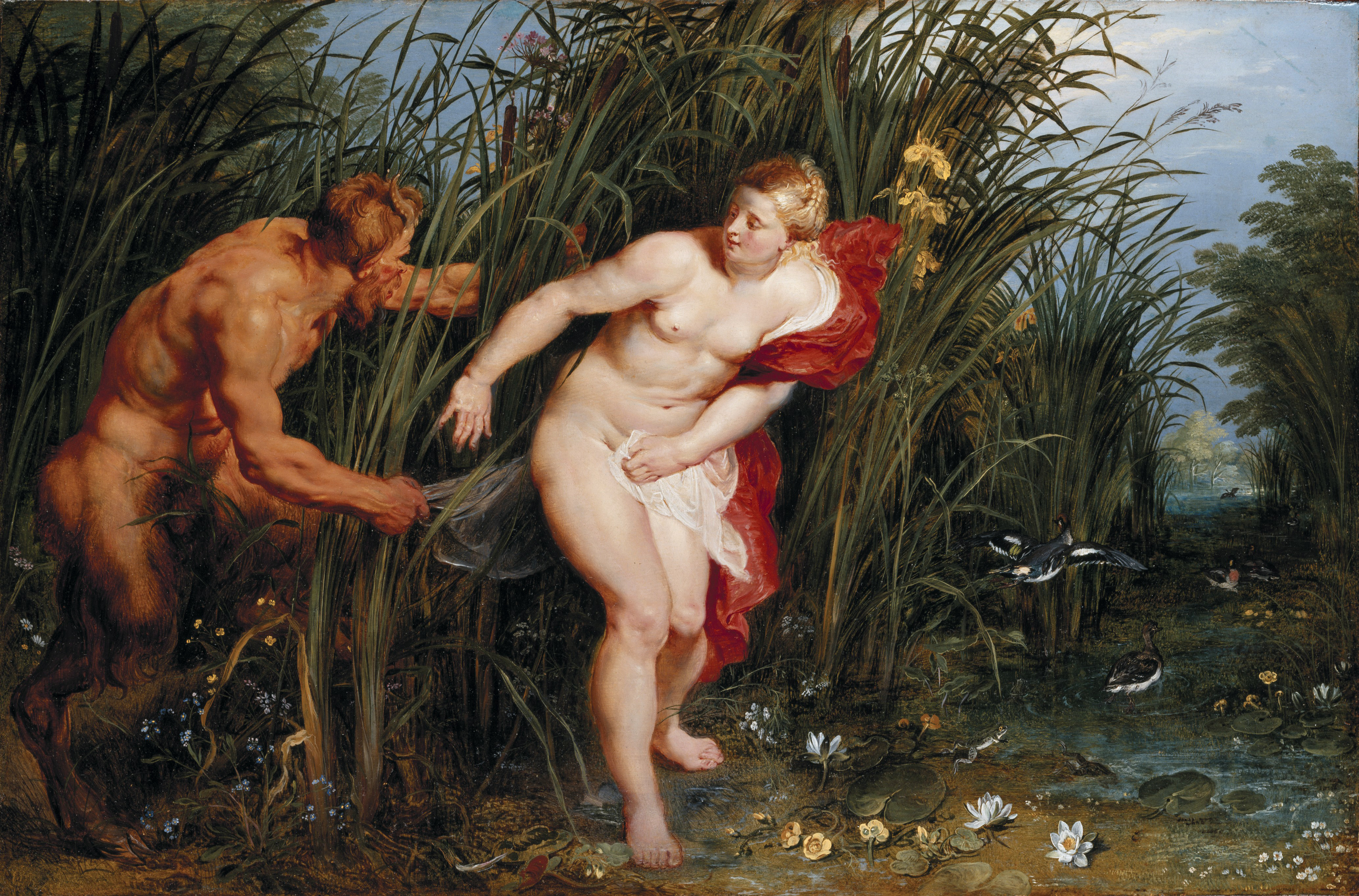 Pan and Syrinxtitle QS:P1476,en:"Pan and Syrinx" label QS:Len,"Pan and Syrinx"